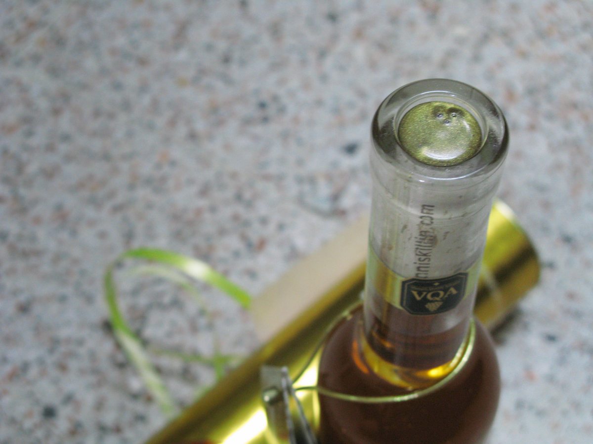 The black & gold Vinter's Quality Alliance (VQA) label on a bottle of Canadian Ice Wine from Inniskillin. This label signifies that the wine is made completely from Canadian grapes instead of the "Cellar in Canada" label which can be made from imported grapes.